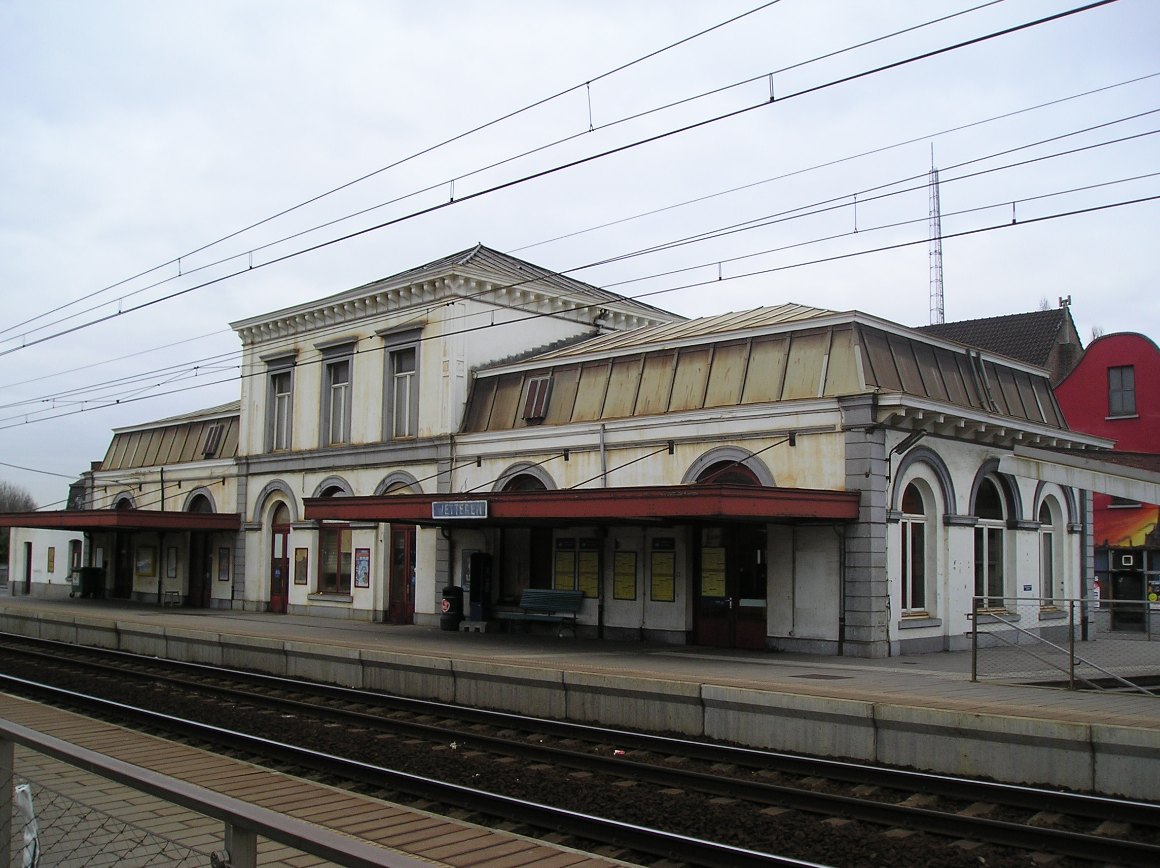 Wetteren train station, main building